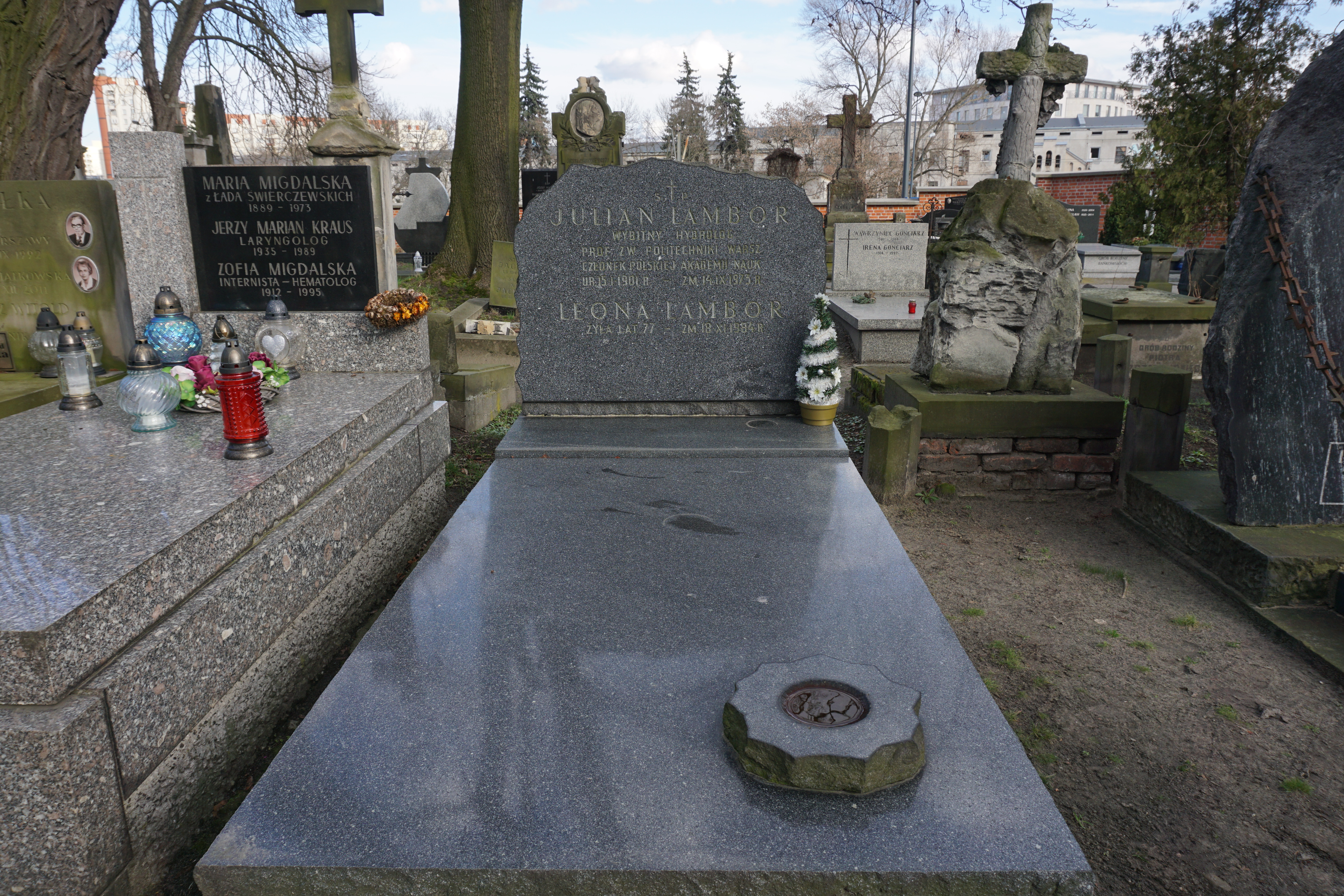 The grave of Julian Michał Lambor at the Powązki Cemetery (section 161, row 4, grave 34)